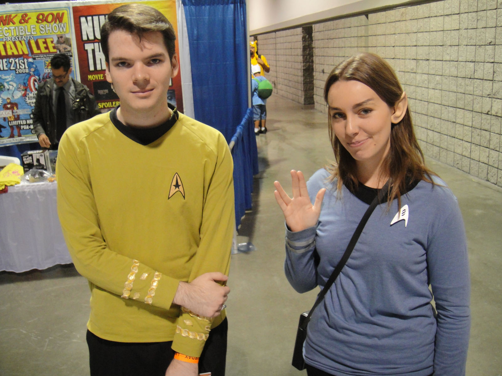 Slightly embarrassed Star Trek Officers. Flickr data on 2011-07-30: Camera: Sony DSC-T900 Tags: long beach, comic-con, convention, comics, costume, fans, star trek, vulcan License: CC BY 2.0 User: pop culture geek